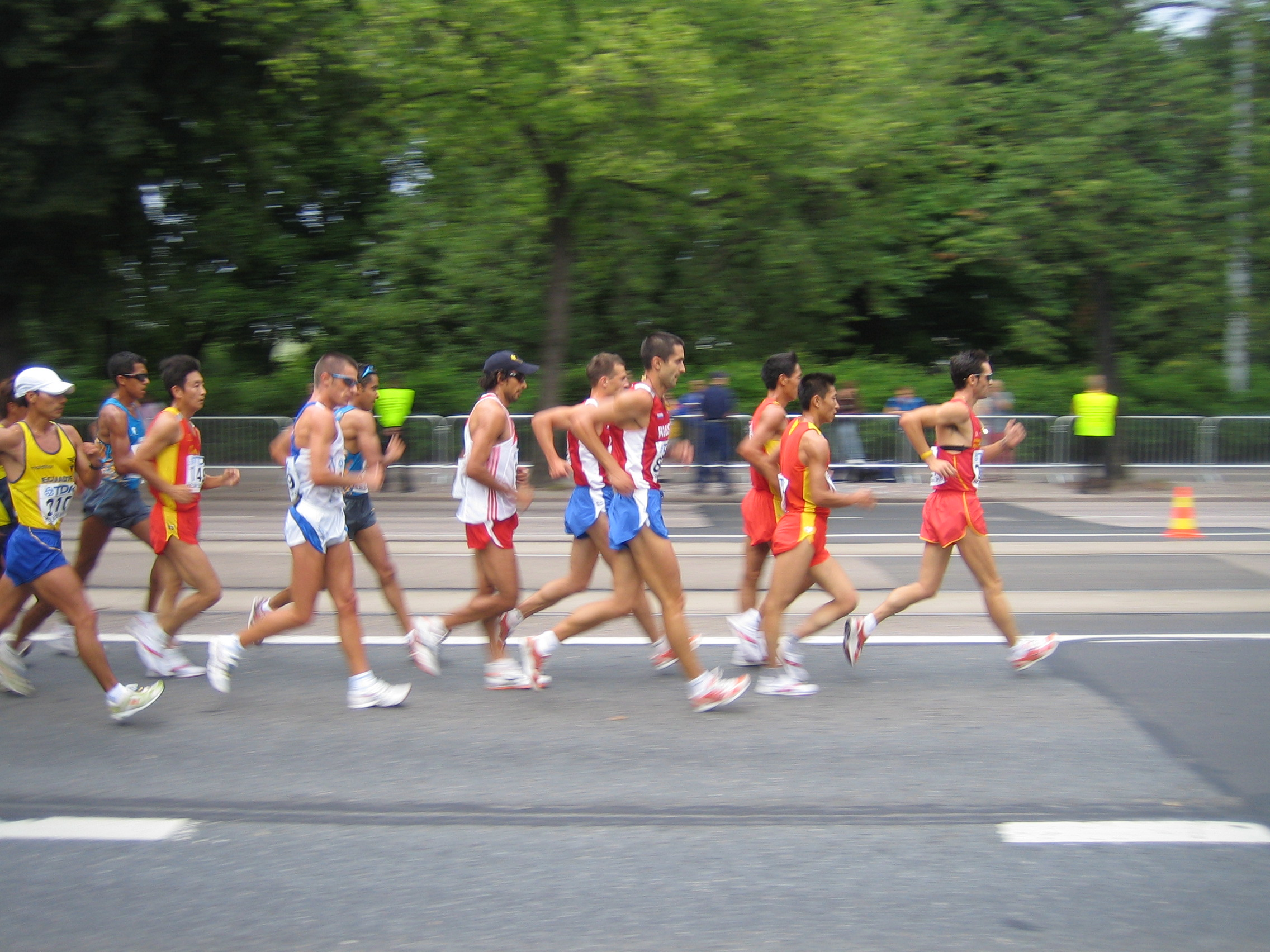 Race walking in Mannerheimintie, Helsinki, Finland in 2005 World Championships in Athletics, August 2005. Note how the leader is cheating!